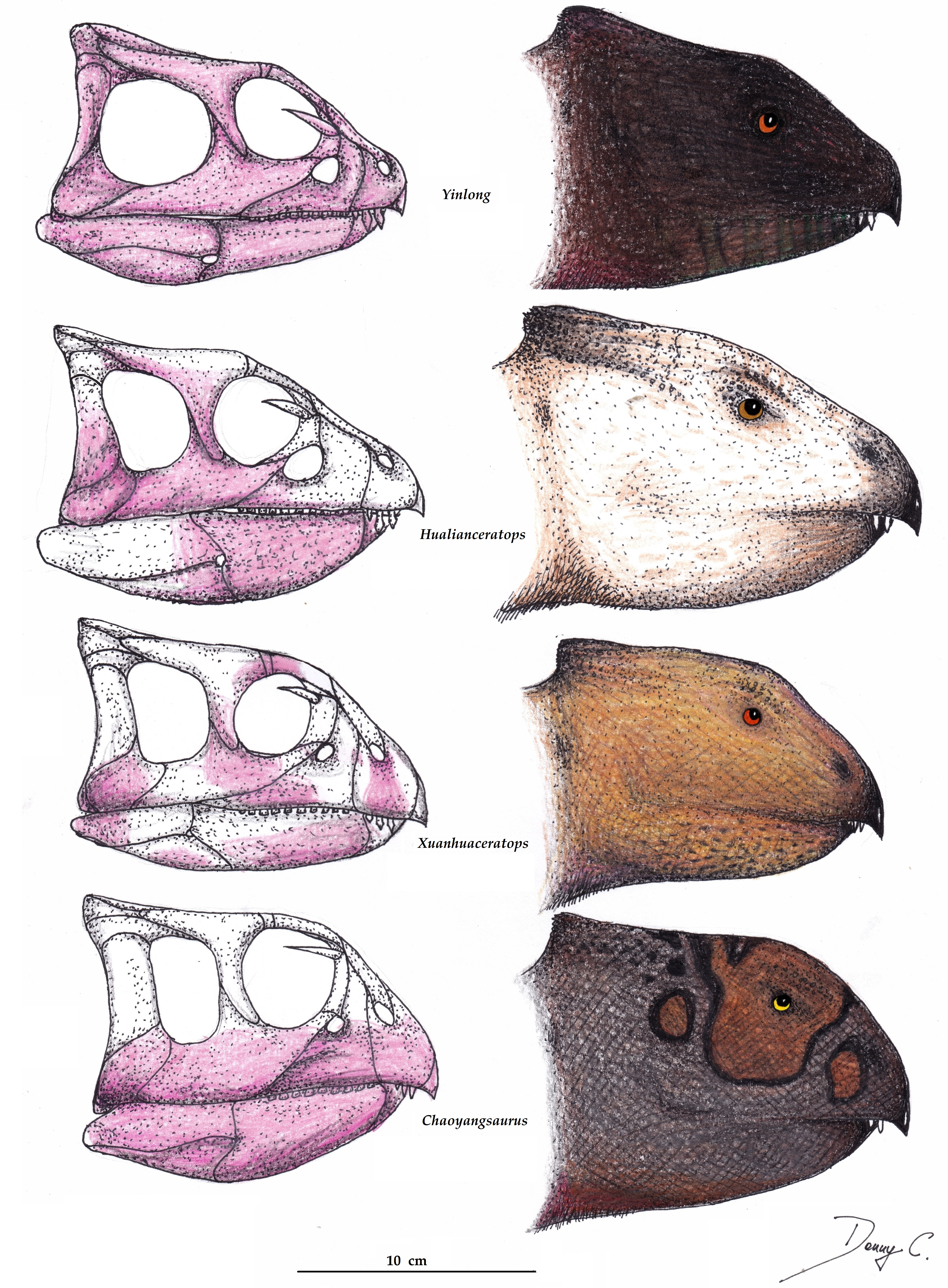 Skulls and life restorations comparison among chaoyangsaurids